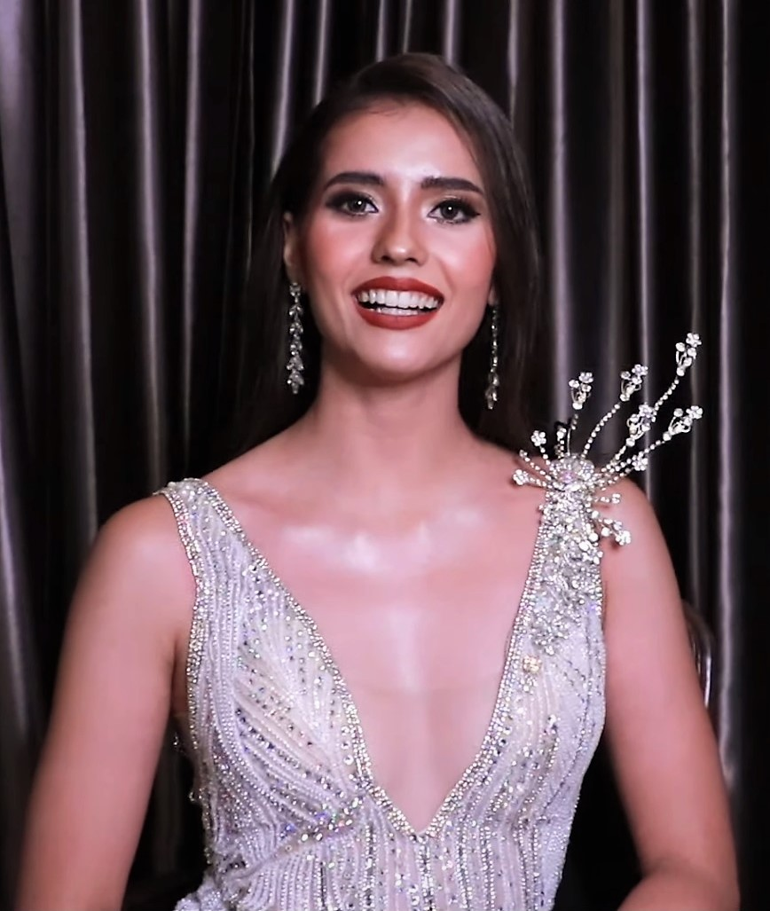 Anntonia Porsild Miss Supranational Thailand 2019 | VDO BY POPPORY Fashion forces Model:Miss Supranational 2019 Anntonia Porsild Make up: Gybbi Facebook: @Gybbiiz Akanittaporn IG: @gybbiizmakeup Hair : Anuraksa p’O Facebook: @Anuraksa Bichitchalothorn IG: @Anuraksab Photo : Aon image maker facebook: @Aon image maker IG @aon_image_maker Costume : LAST COST facebook: Lachchanon Lastcost Facebook page: Lastcostwedingclub IG: @lachchanon_lastcost Location : LAST COST wedding (k13) VDO BY @POPPORYFASHIONBLOG